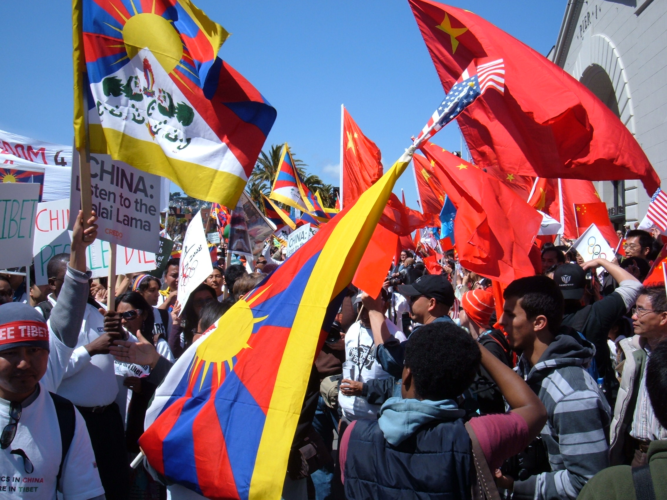 Part of a large group of pro-Tibetan protesters moving south along the northbound lanes of The Embarcadero come into contact with pro-Chinese protesters near Pier 1. For an explanation and additional photos of my experience during the relay please see User:BrokenSphere/Gallery/San Francisco Bay Area/San Francisco/2008 Olympic Torch Relay.